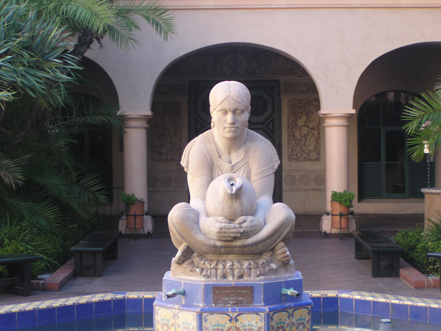 photo by Einar Einarsson Kvaran Donal Hord